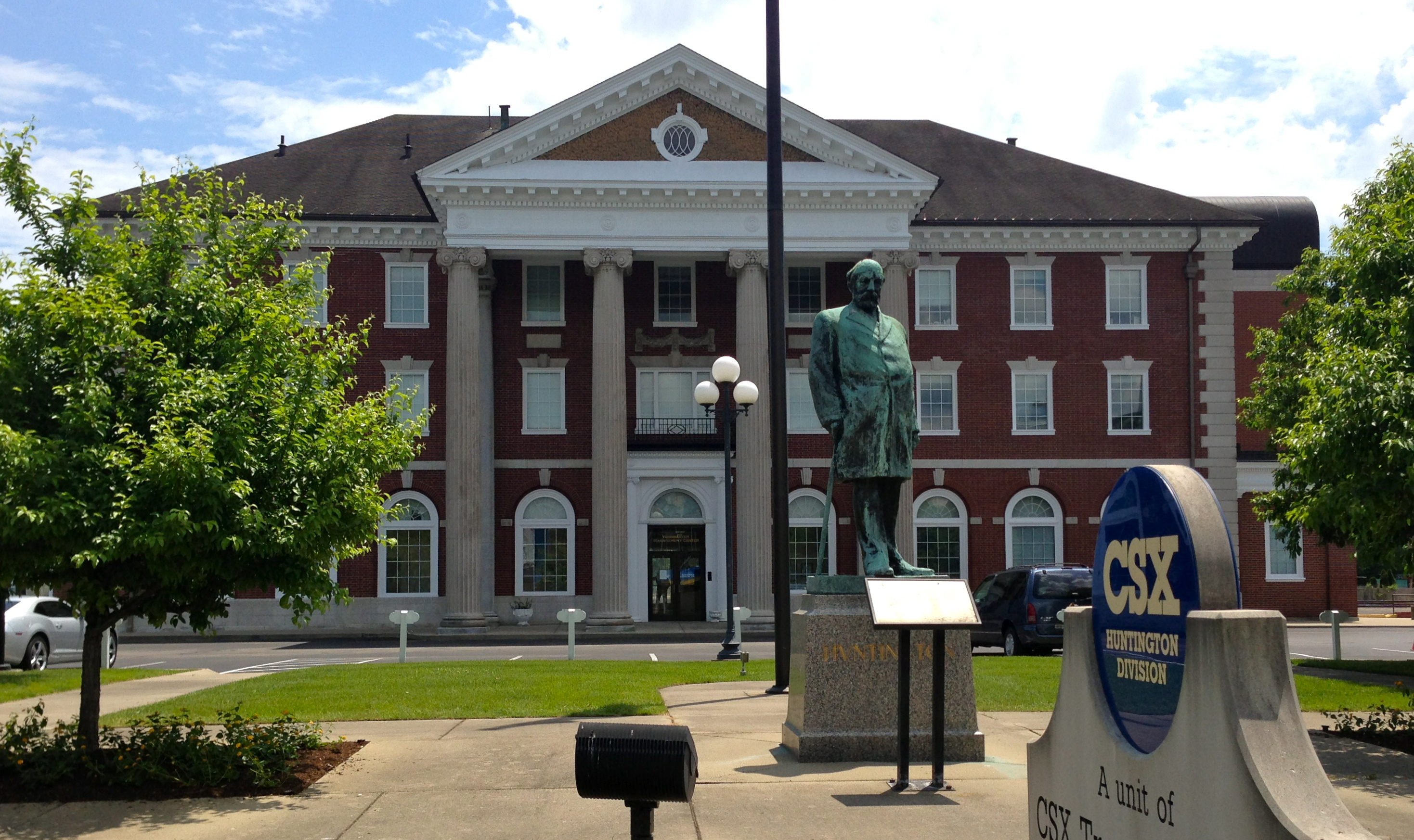 The CSX-Huntington Division Headquarters with the statue of Collis P. Huntington by Gutzon Borglum in the foreground. Taken May 18, 2013.